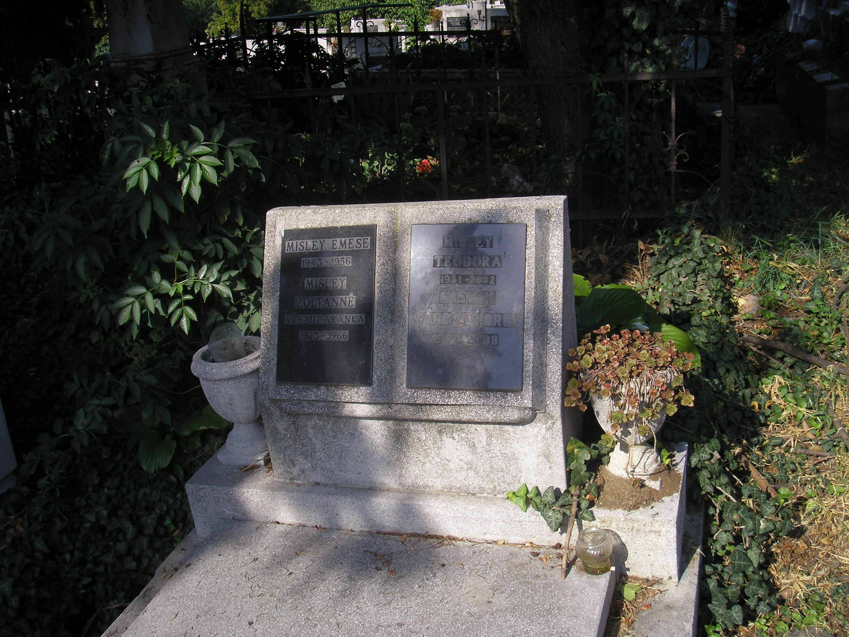 Tomb of Emese Misley in Wooden Cemetery in Hungary, Miskolc